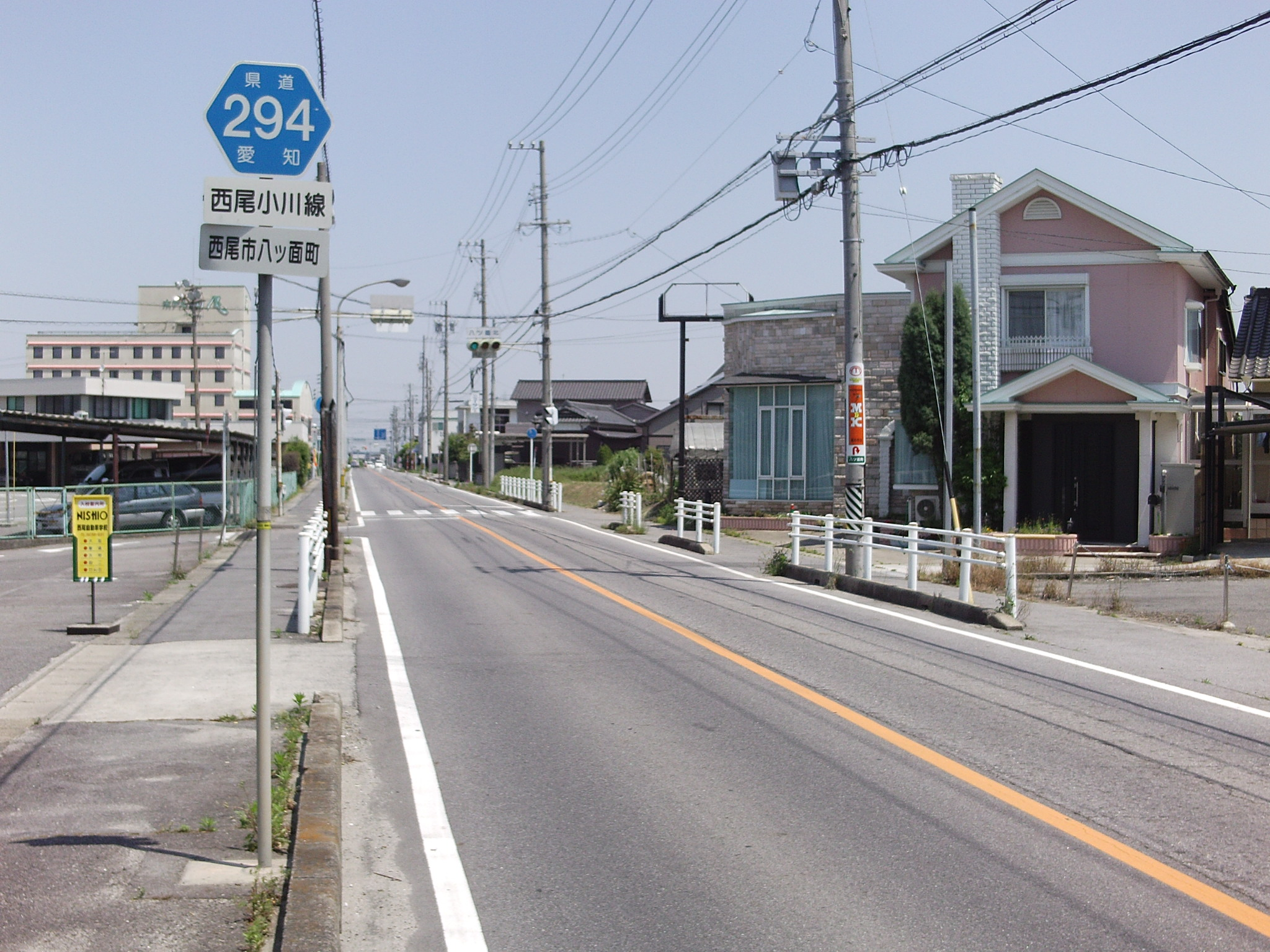 Aichi prefectural road No.294 in Yatsuomotecho, Nishio, Aichi.